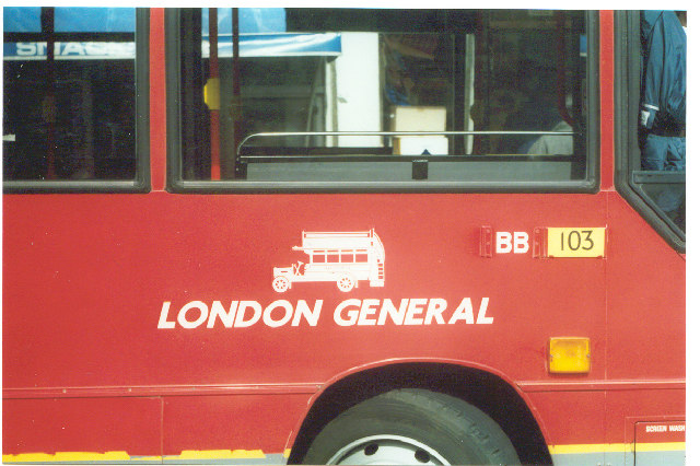 Victoria Bus Station. LONDON GENERAL - a name from History.